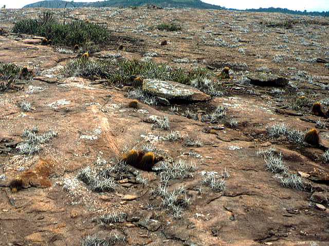 Tillandsia graomogolensis in habitat in Brazil, exact location unknown. The taxon Tillandsia kurt-horstii Rauh, 1987, is meanwhile no longer accepted and considered as a synonym of Tillandsia graomogolensis A. Silveira, 1931.